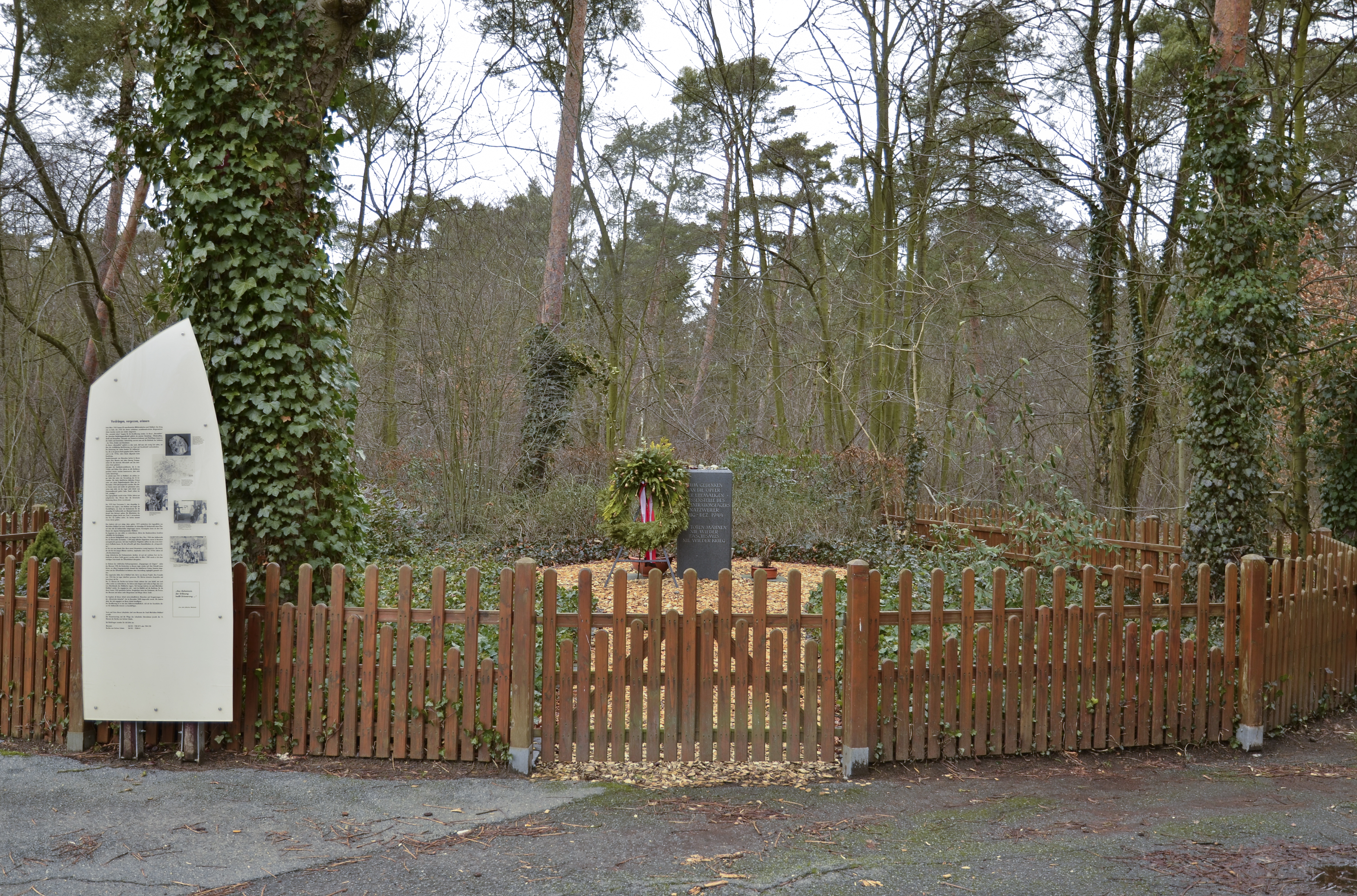 Memorial - labour camp Walldorf / Frankfurt Airport - Outpost of the concentration camp Natzweiler-Struthof. In use from August until December 1944. Up to 1700 Hungarien jewish women were detained in the camp for forced labour on a runway construction site of the company Züblin at the Frankfurt Airport. About 50 women didn't survive this time period of 4 months. From the remaining women, only about 300 survived further deportation and the holocaust.